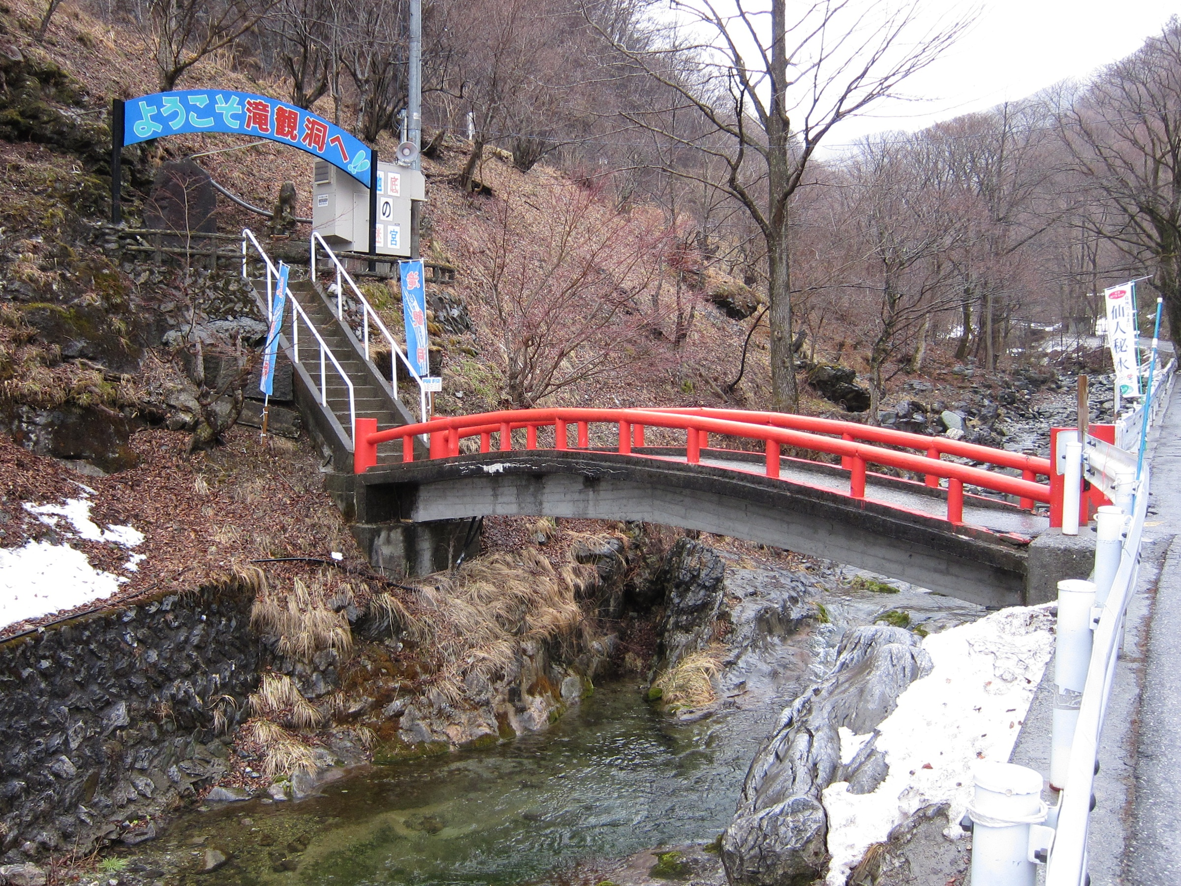 Photograph of Rokando Limestone Cave entrance and Kesen River, in Sumita Town, Iwate Prefecture, Japan.